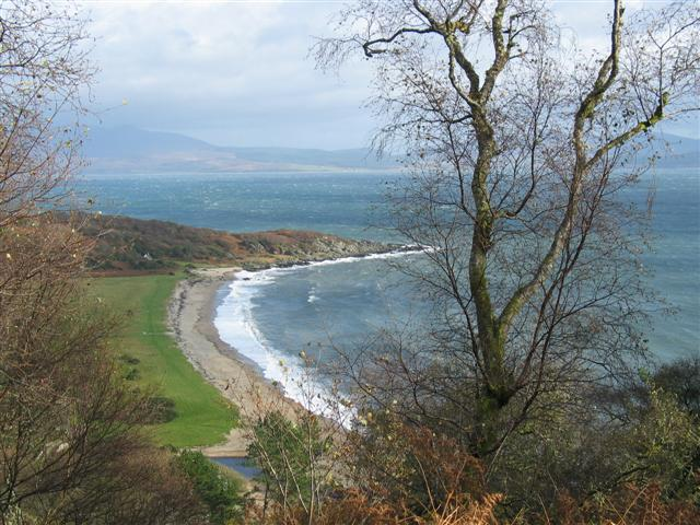 Saddell Bay: choppy seas